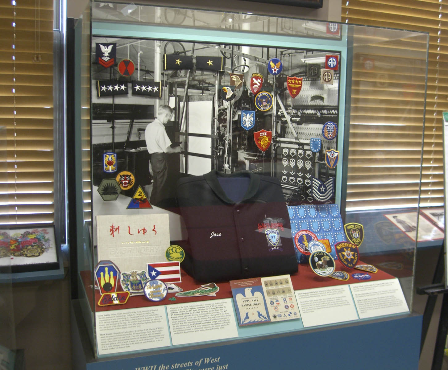 Embroidery and lace exhibit at the Park Performing Arts Center in Union City, New Jersey, once the “Embroidery Capital of the United States". This photo was created by Luigi Novi. It is not in the public domain, and use of this file outside of the licensing terms is a copyright violation.